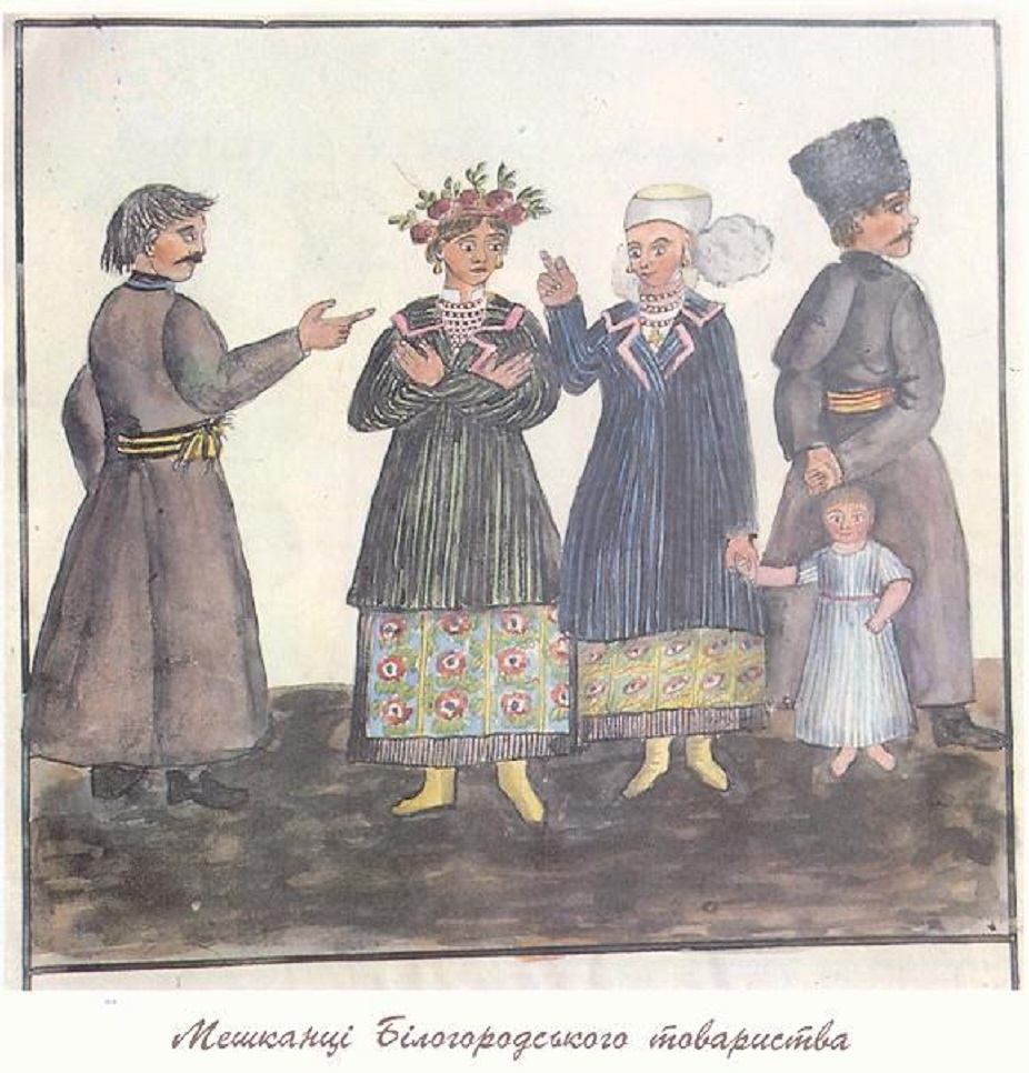 Kyiv